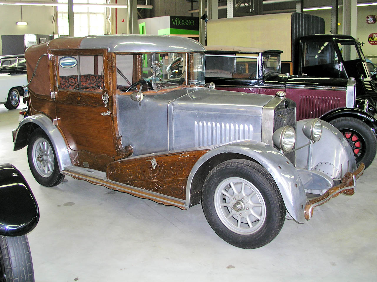 1.4 litre 4-cylinder car with special bodywork for the Shah of Persia, made in Belgium by Fabrique Nationale d'Armes de Guerre; side view